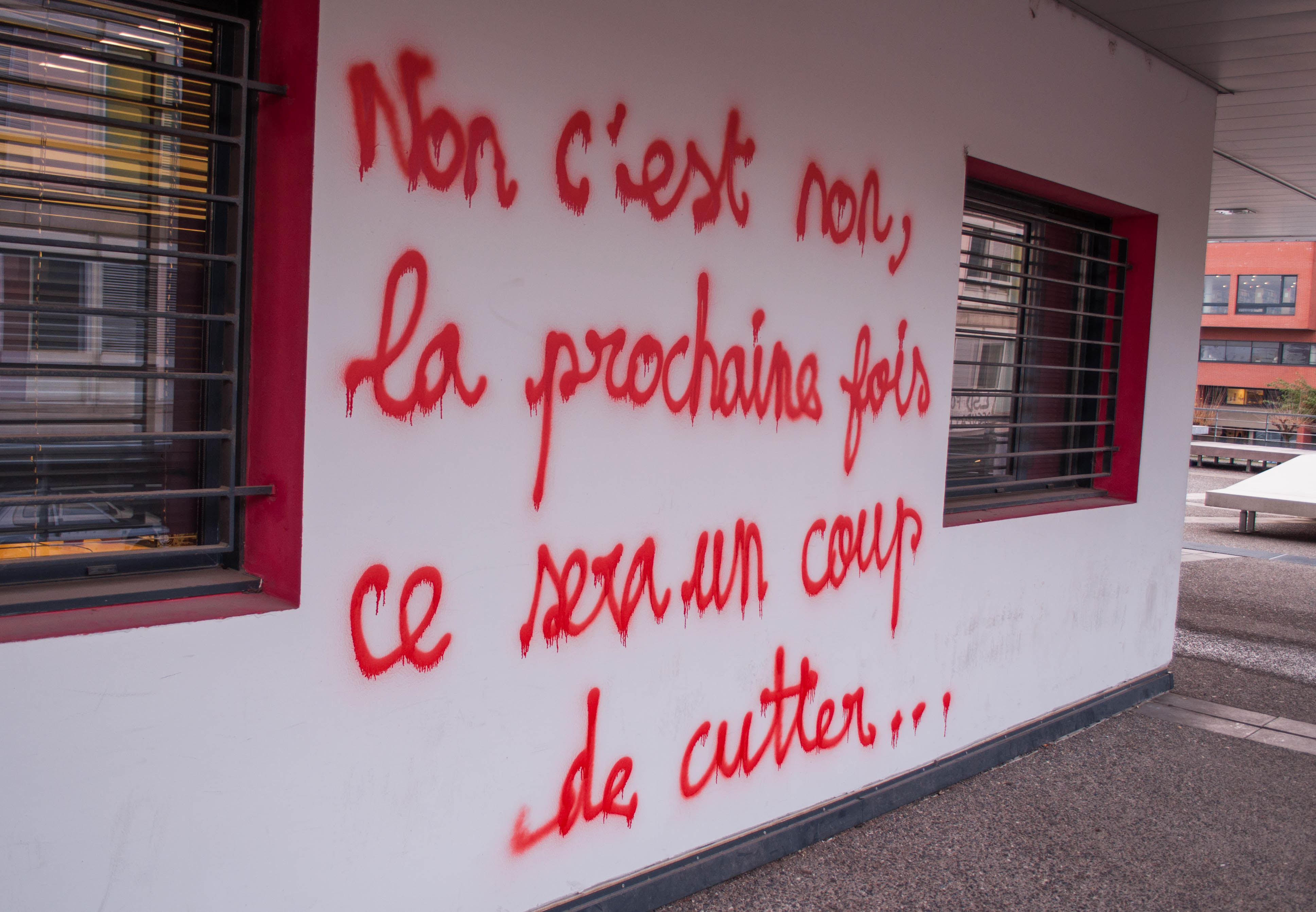 Feminist slogan tagged during the occupation of the university. "No means no, next time it will be a blow of cutter..."